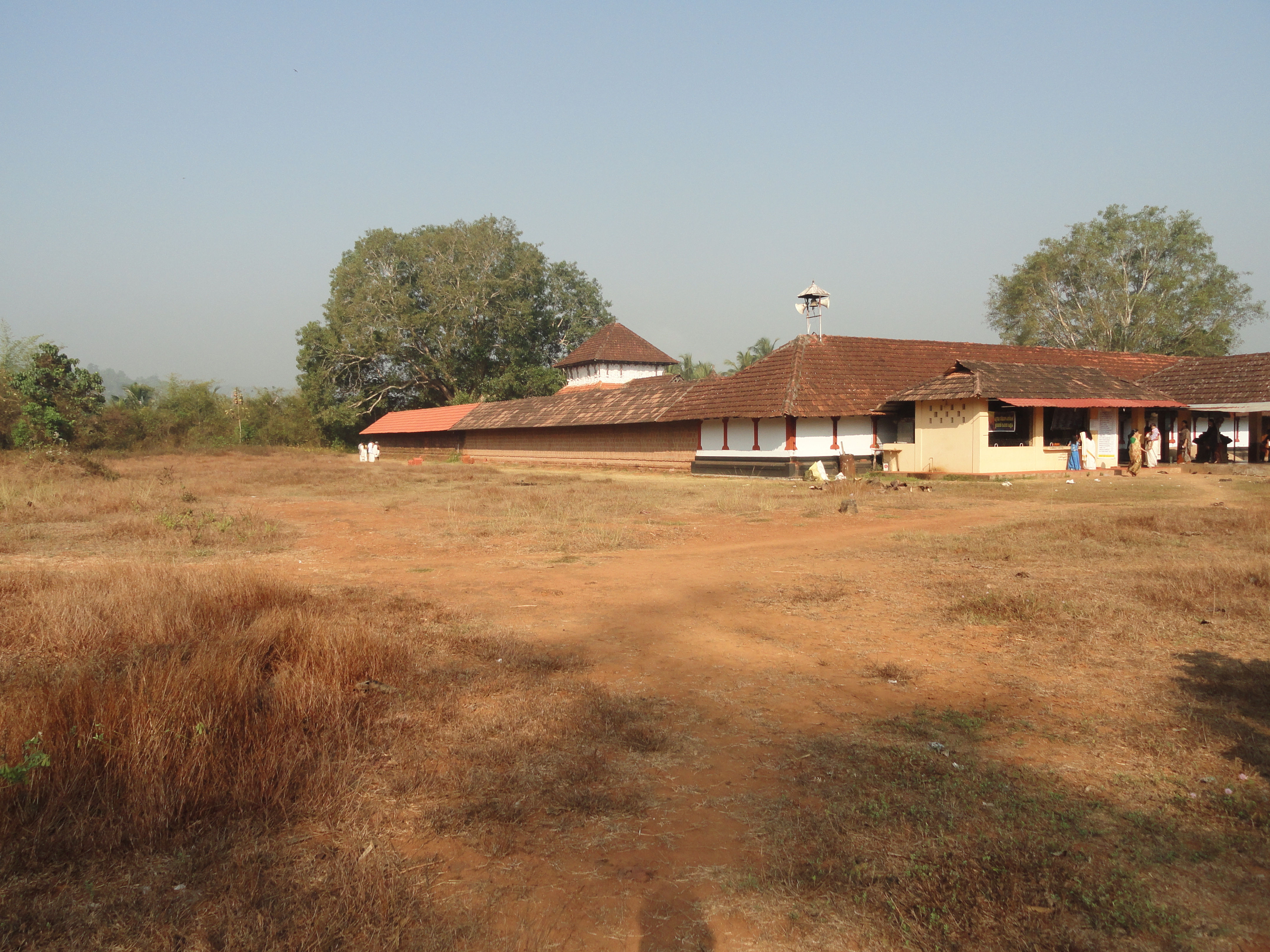 Panniyur Sri Vamanamoorthy Temple